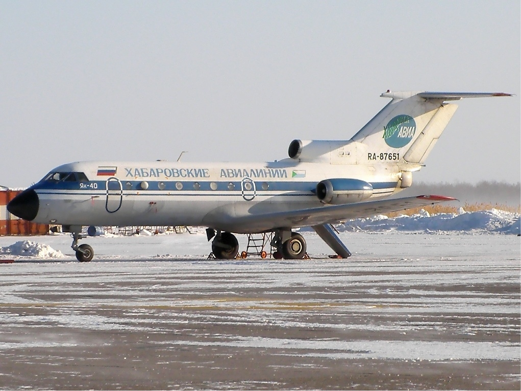 Khabarovsk Airlines Yakovlev Yak-40